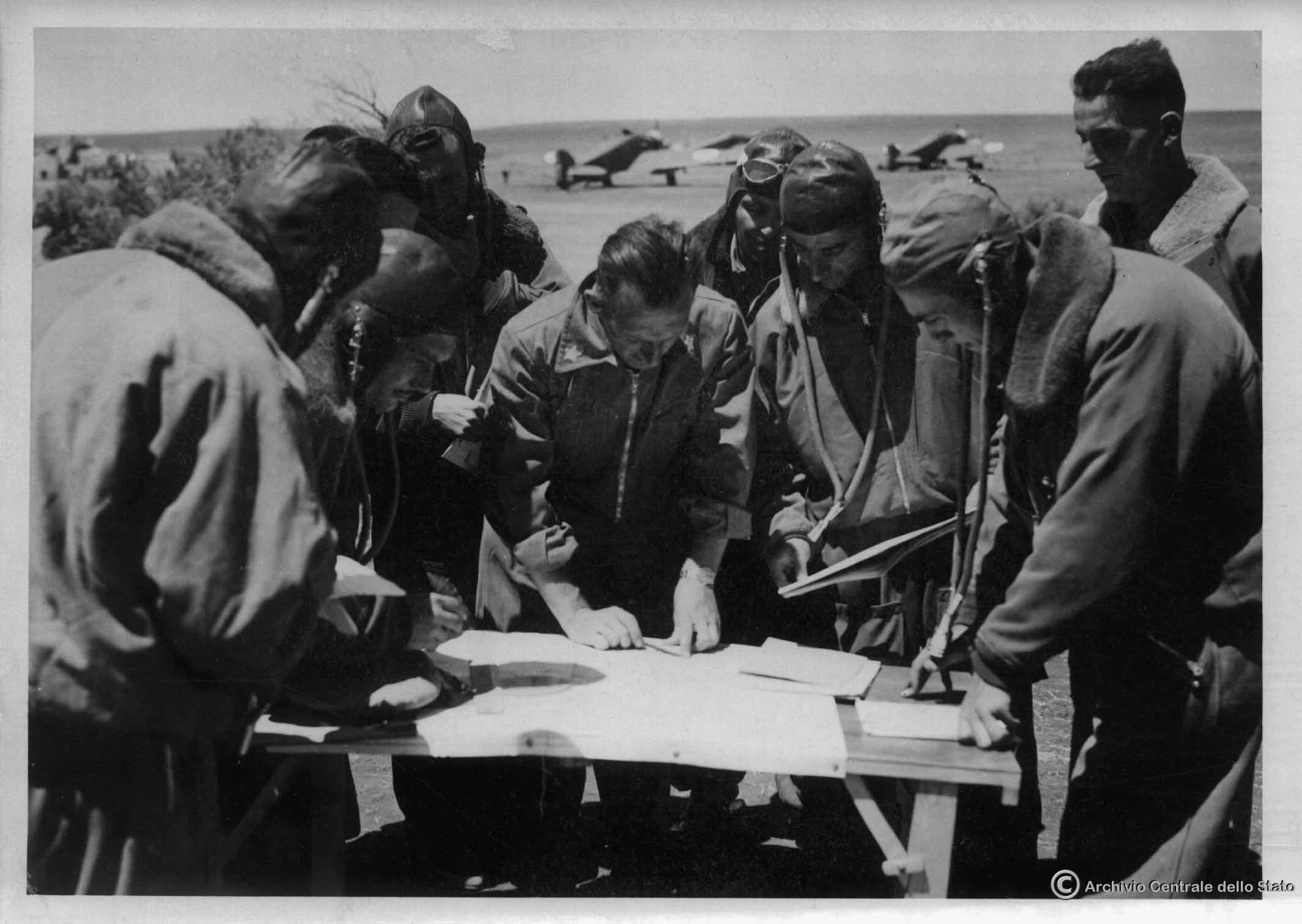 Italian pilots in Egypt studying map in September 1940.